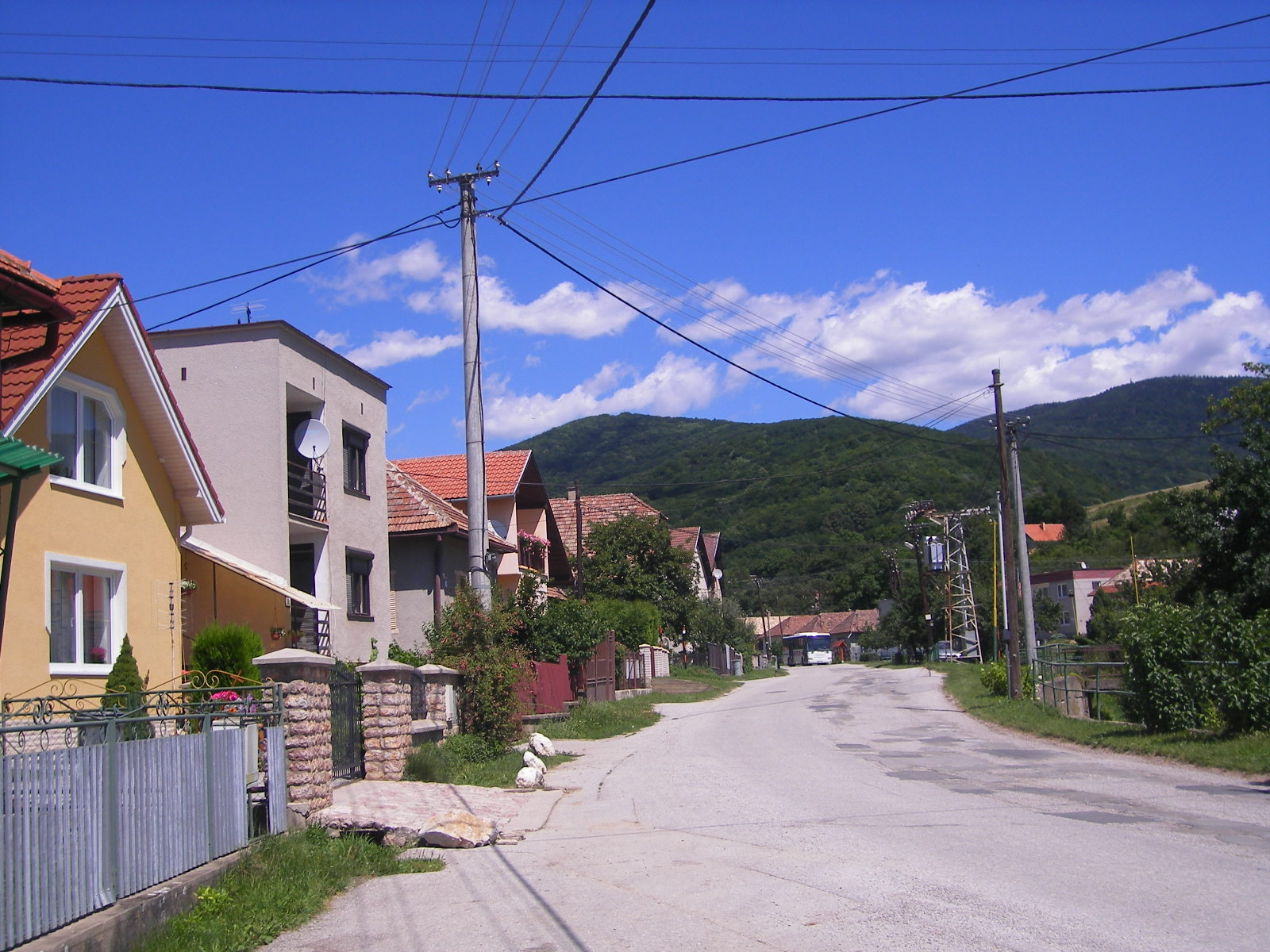 Pača - street view